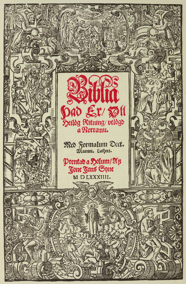 Frontispiece of the elaborate printed bible of Gudbrandur Thorlaksson, bishop, 1584